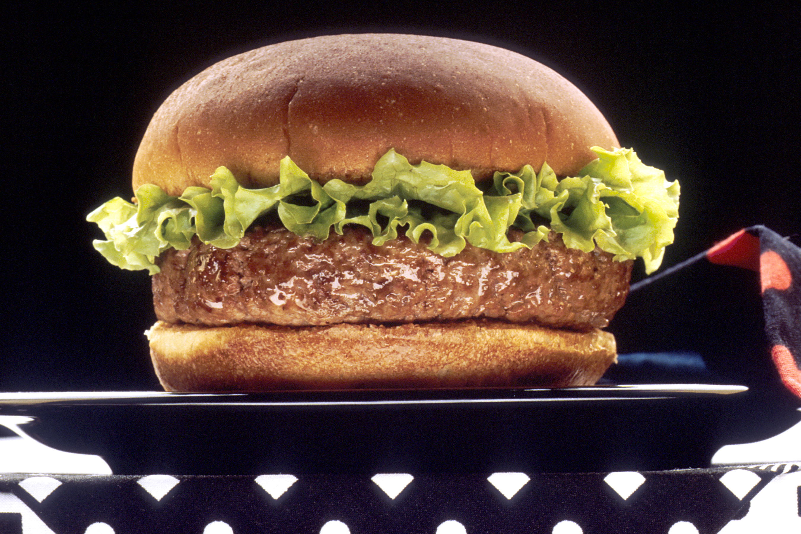 A hamburger with a rim of lettuce sitting on a black plate against a black background with a black and red napkin on a black and white-dotted tablecloth.